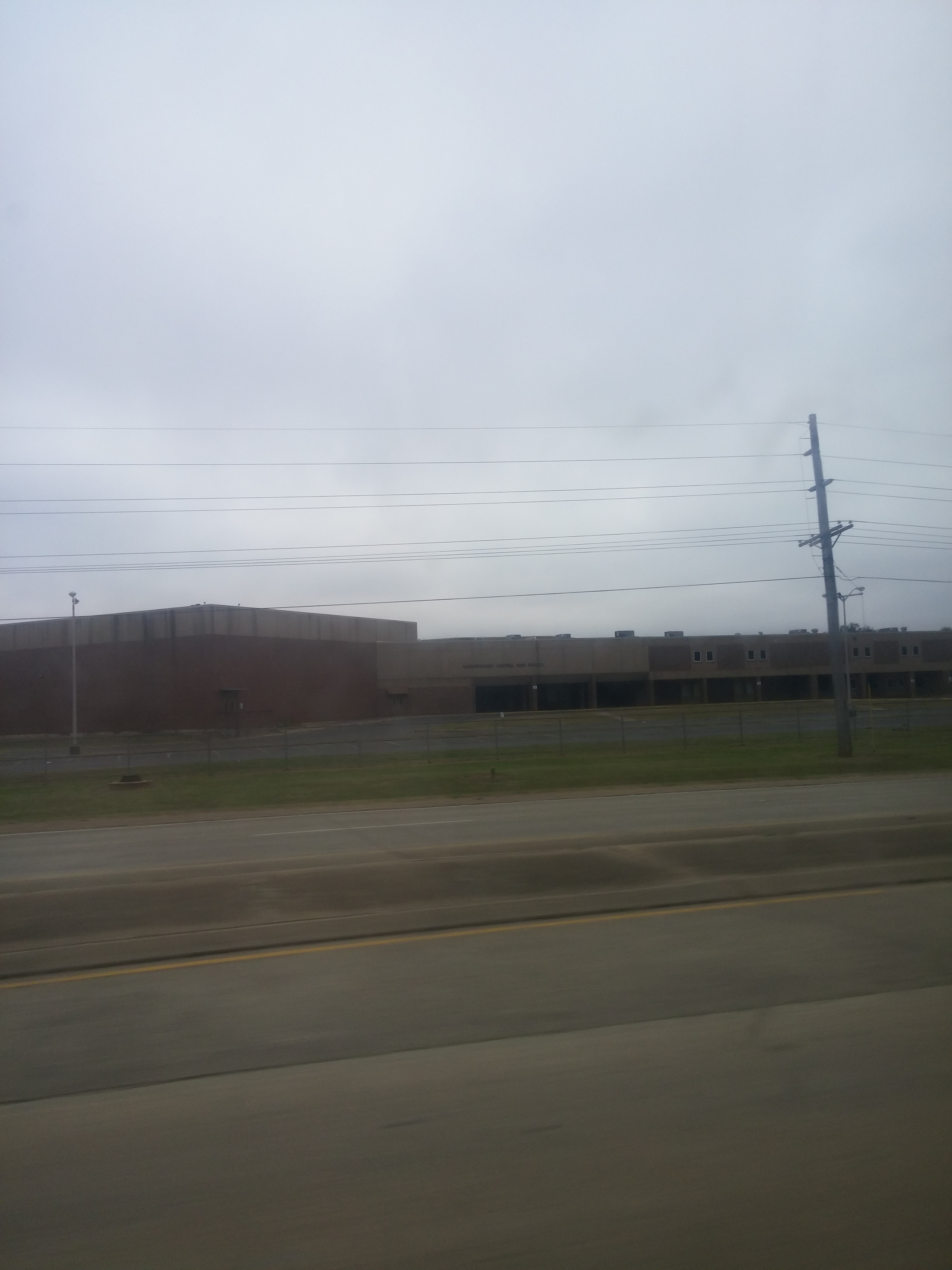 I'm Taken it on Election Day 2016